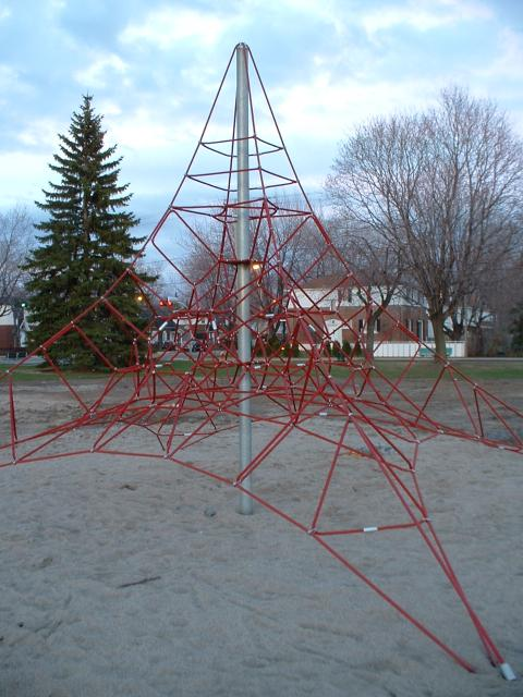 Snapshot by User:aarchiba.